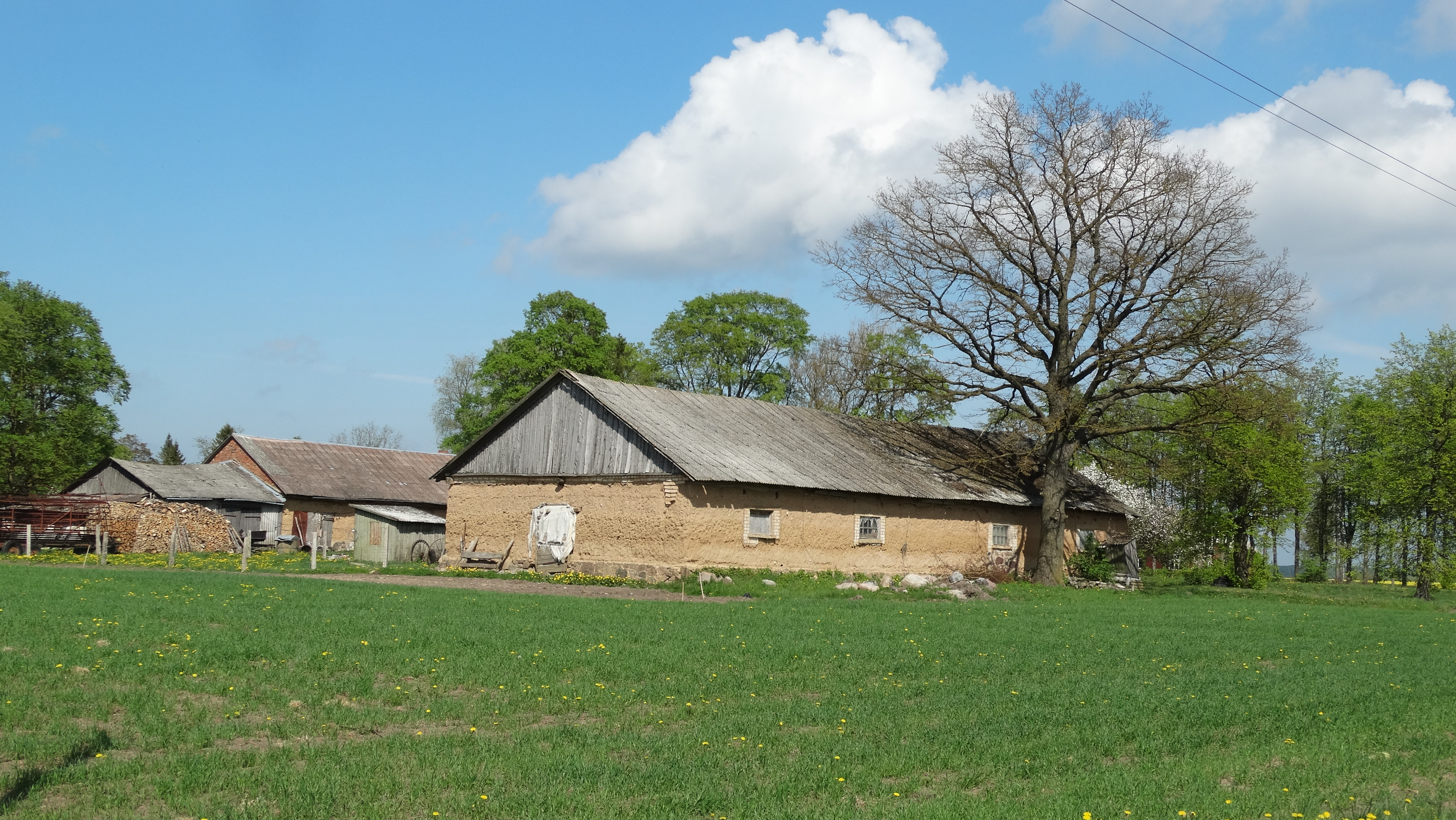 Gataučiai, Pakruojis district, Lithuania